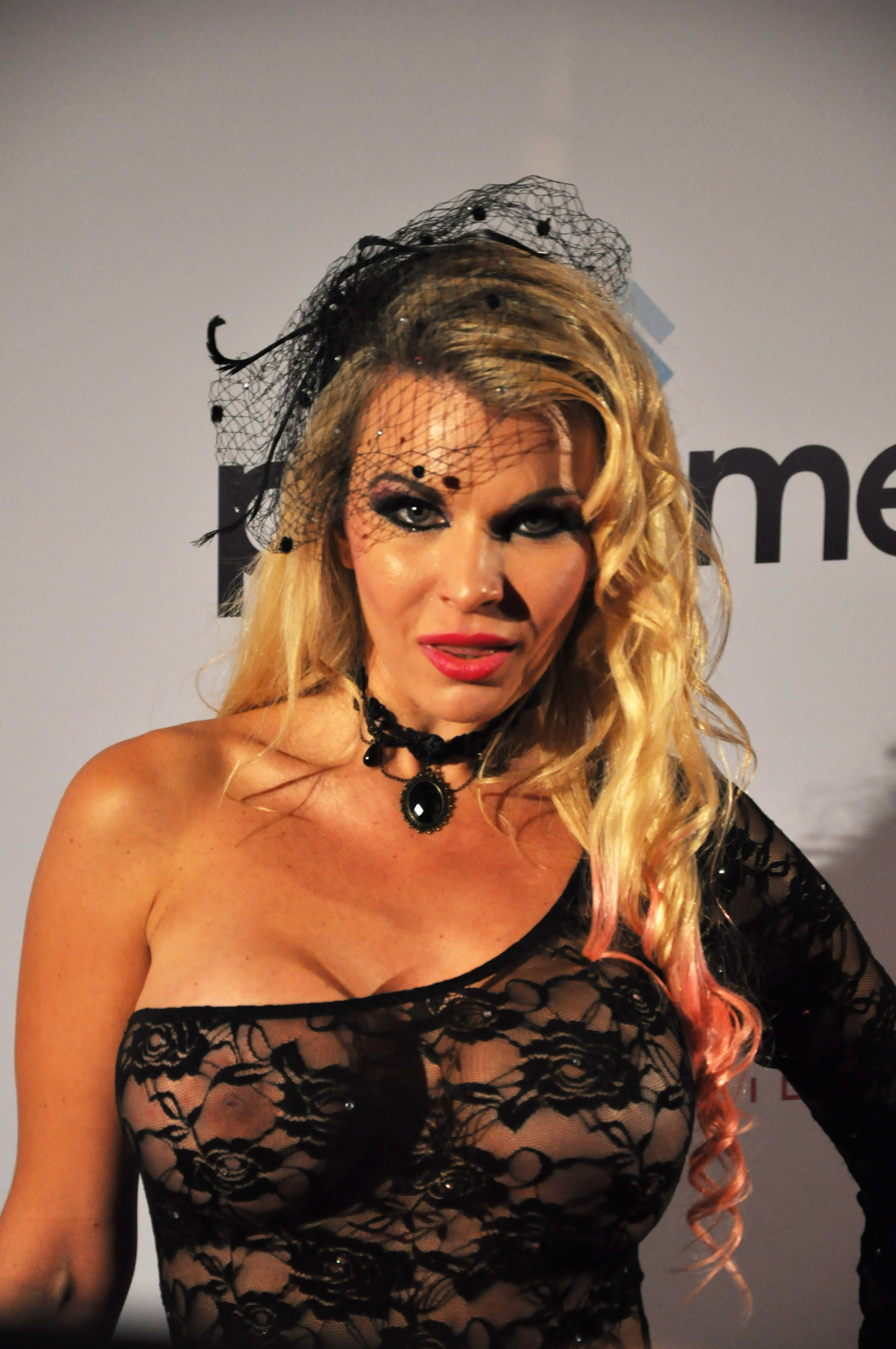 ... at the ceremony of the Venus Awards 2014, Berlin